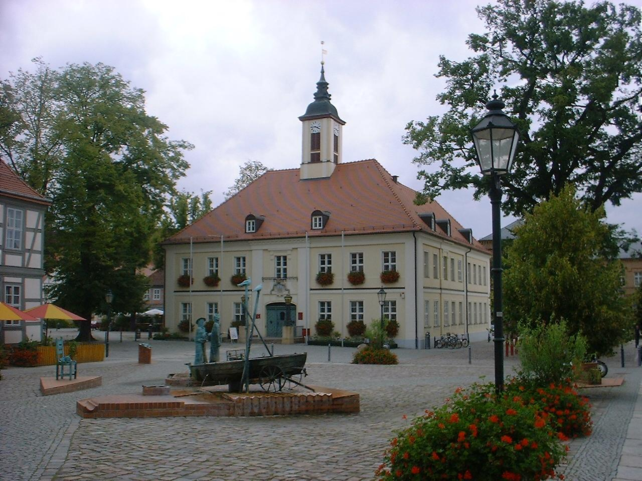 Market place and town hall in Angermünde in Brandenburg, Germany